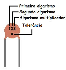 Identification of value in the ceramic capacitor.